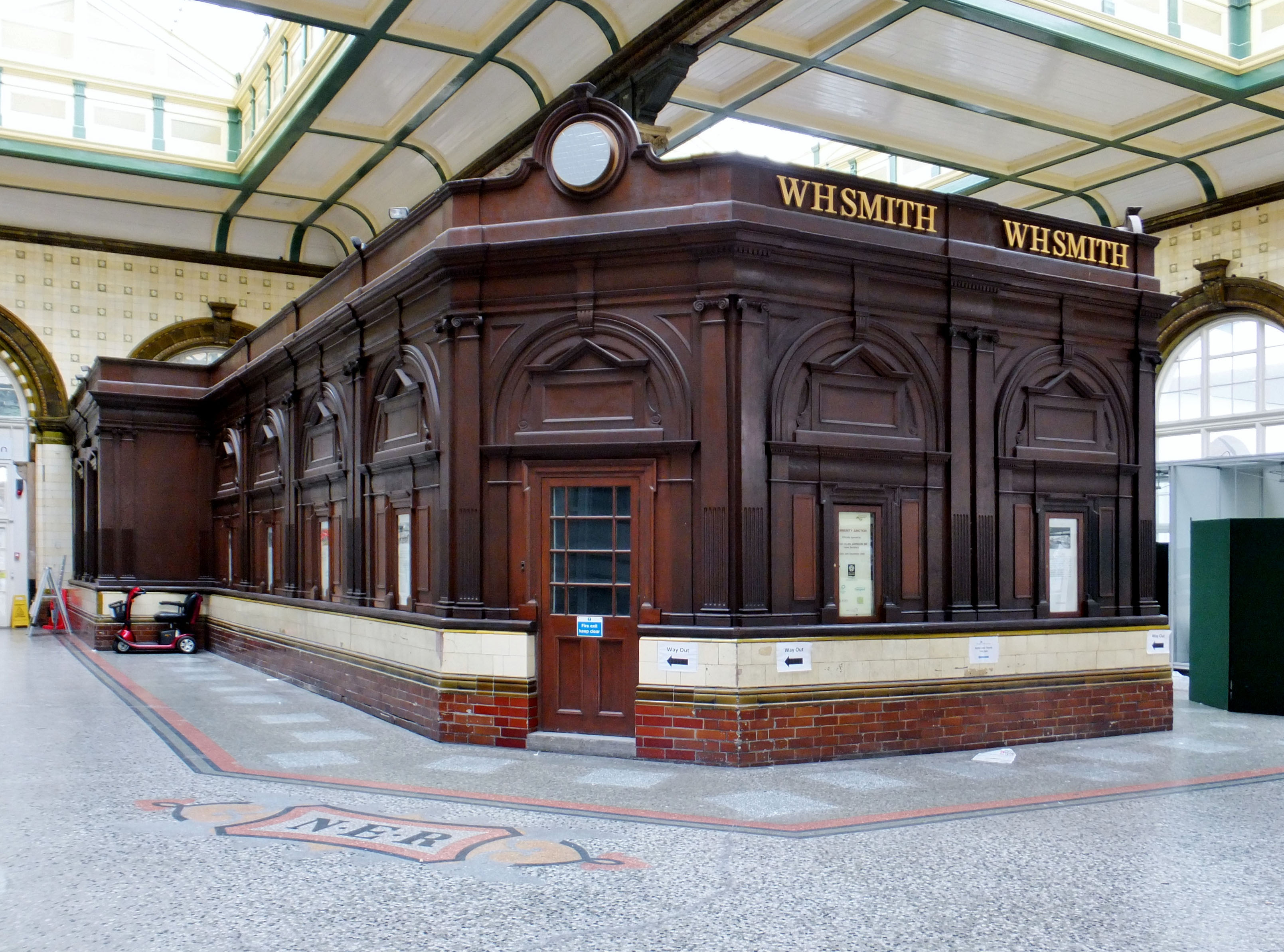 Paragon Station, Anlaby Road, Kingston upon Hull